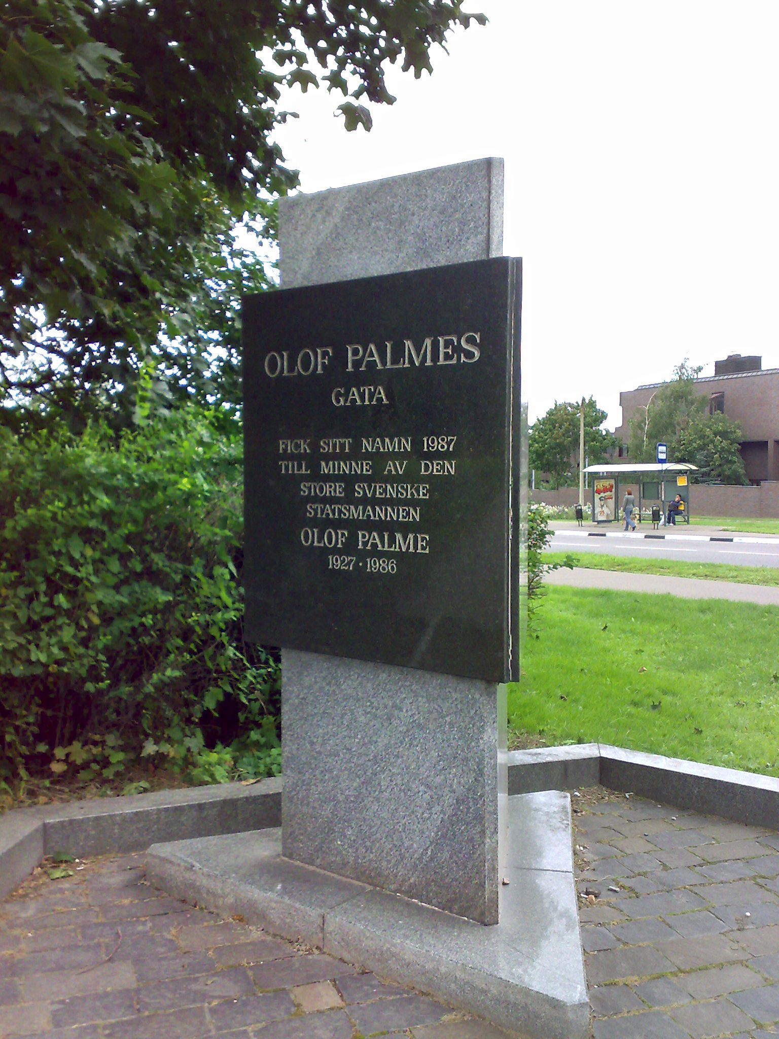 took this image using my mobile phone, in September, 2008. Olof Palme memorial, Olof Palme Street (Rus: ул. Улофа Пальме), Moscow.